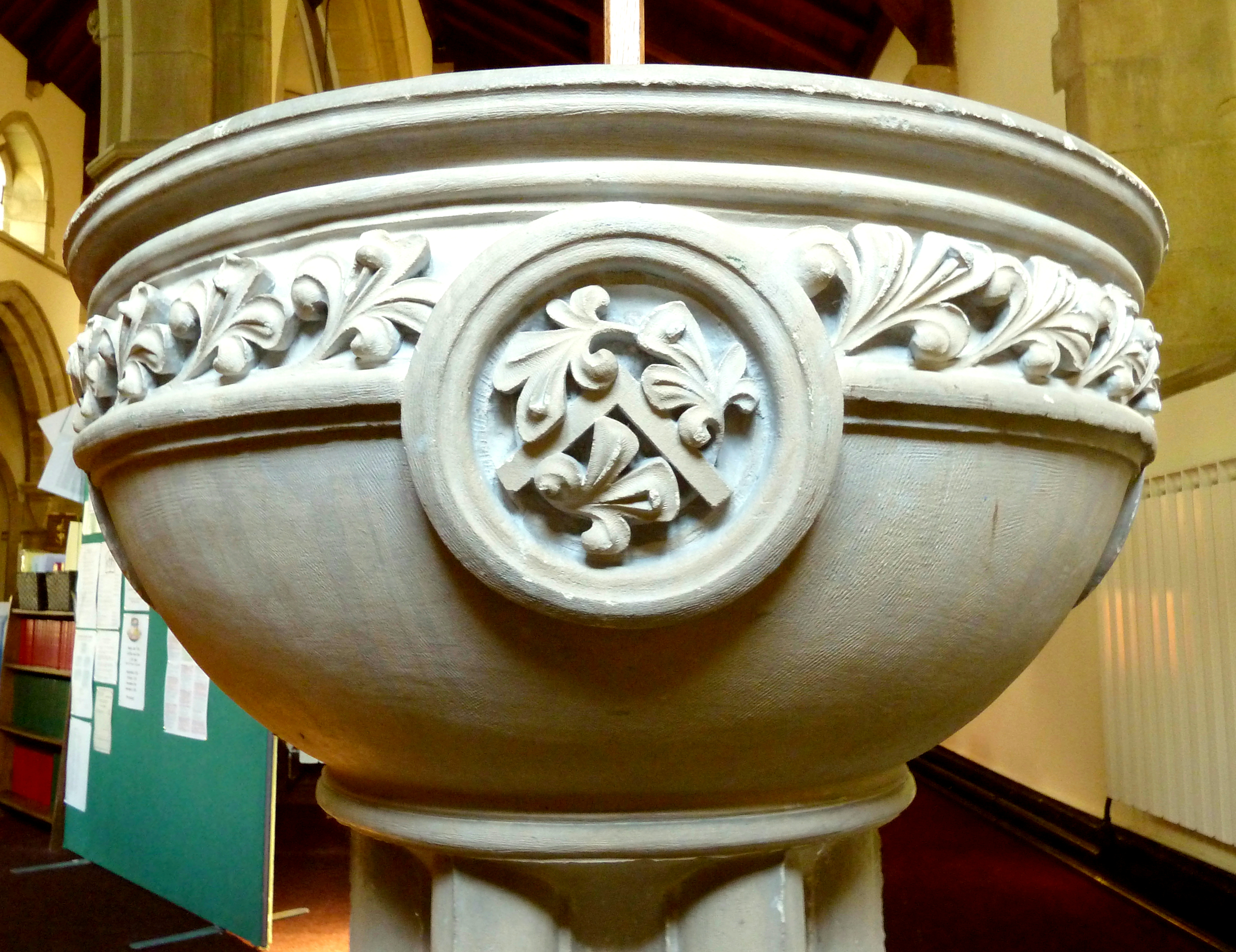 Sculpture by Charles Mawer (active 1861-1881) in Church of St Thomas the Apostle, Killinghall, North Yorkshire, England.(1880). Architect William Swinden Barber. Font in Caen stone. Showing the square (mason's tool for checking right angles), an attribute of Thomas the Apostle, who was believed to be a builder.